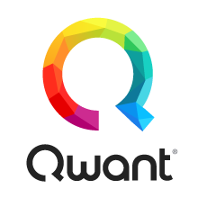 Qwant text logo (version 3) – a former logo used until 2018.